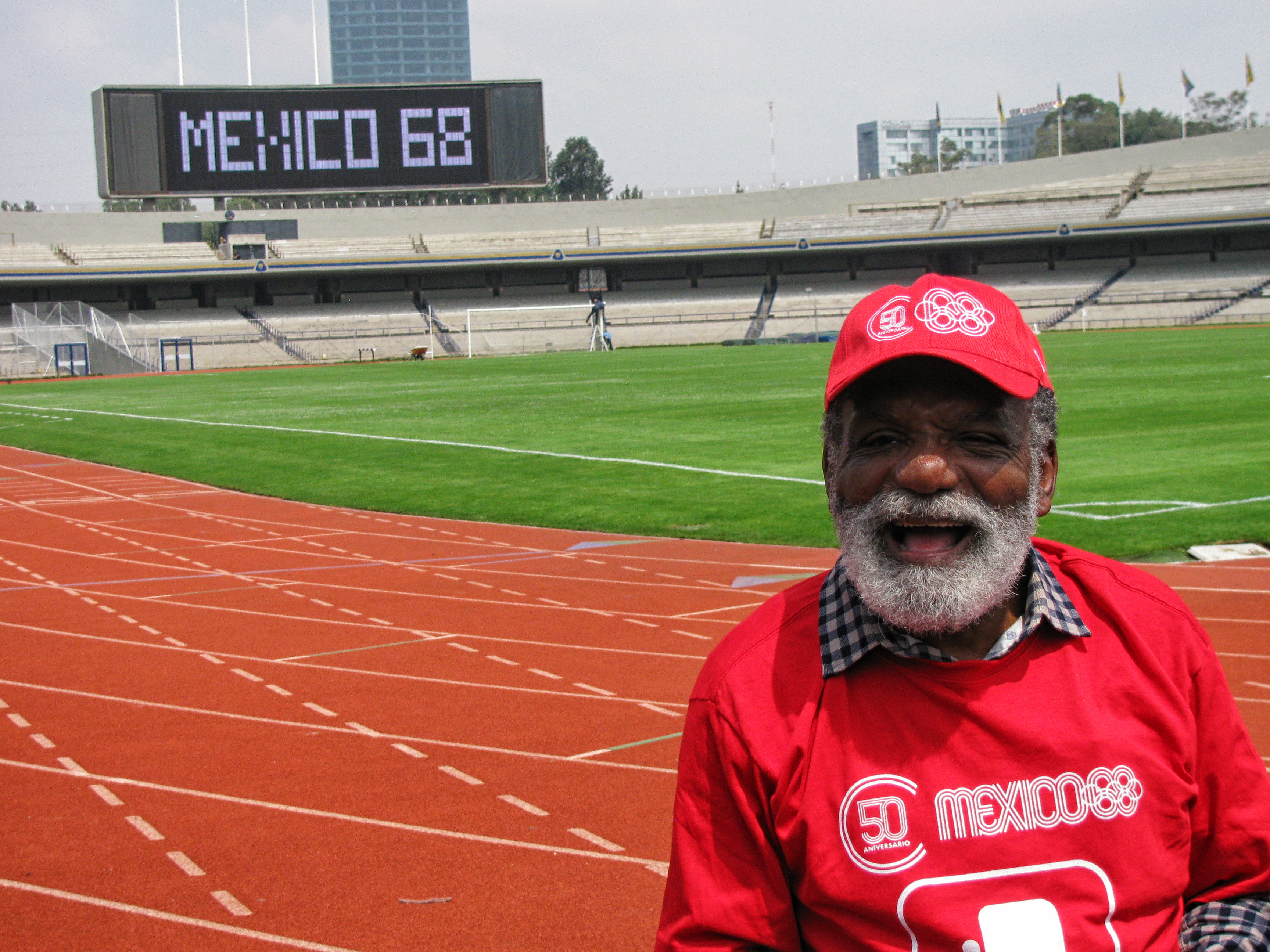 Servilio de Oliveira, brazilian boxer. Event to commemorate the 50th anniversary of the 1968 Olympic Games in Mexico. University Olympic Stadium, Mexico City, Mexico.